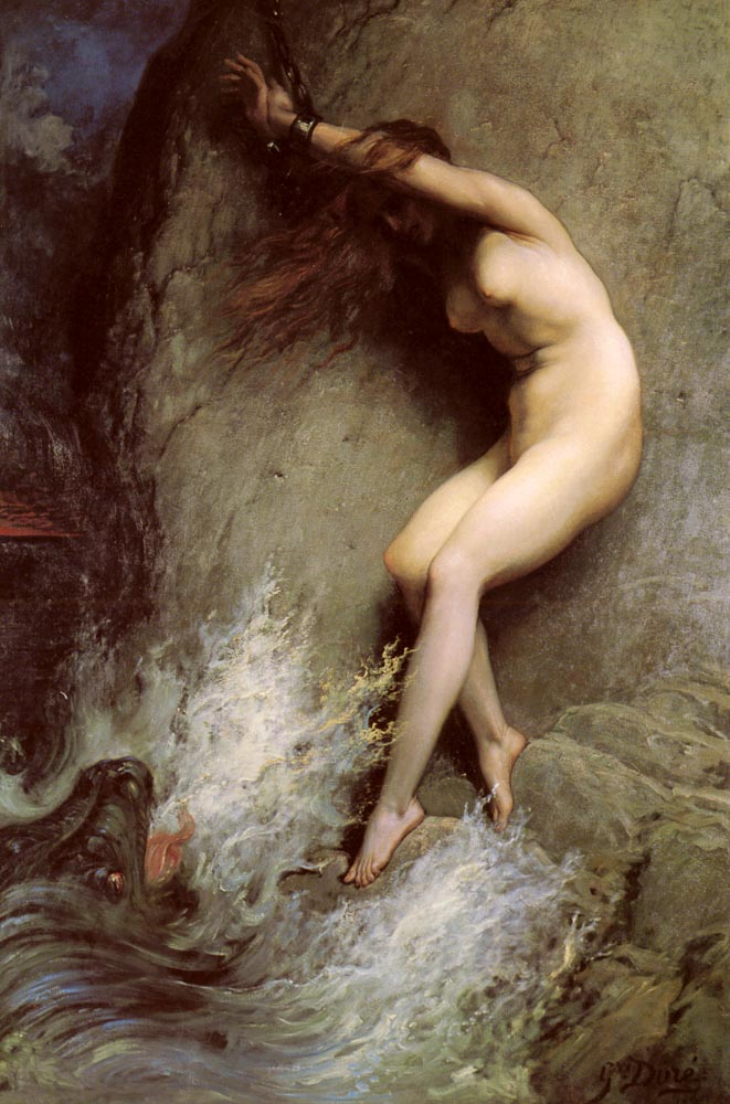 This digital version appears to have been produced, in part, through significant digital restoration when compared to the other version, Gustave Doré Andromeda.jpg.